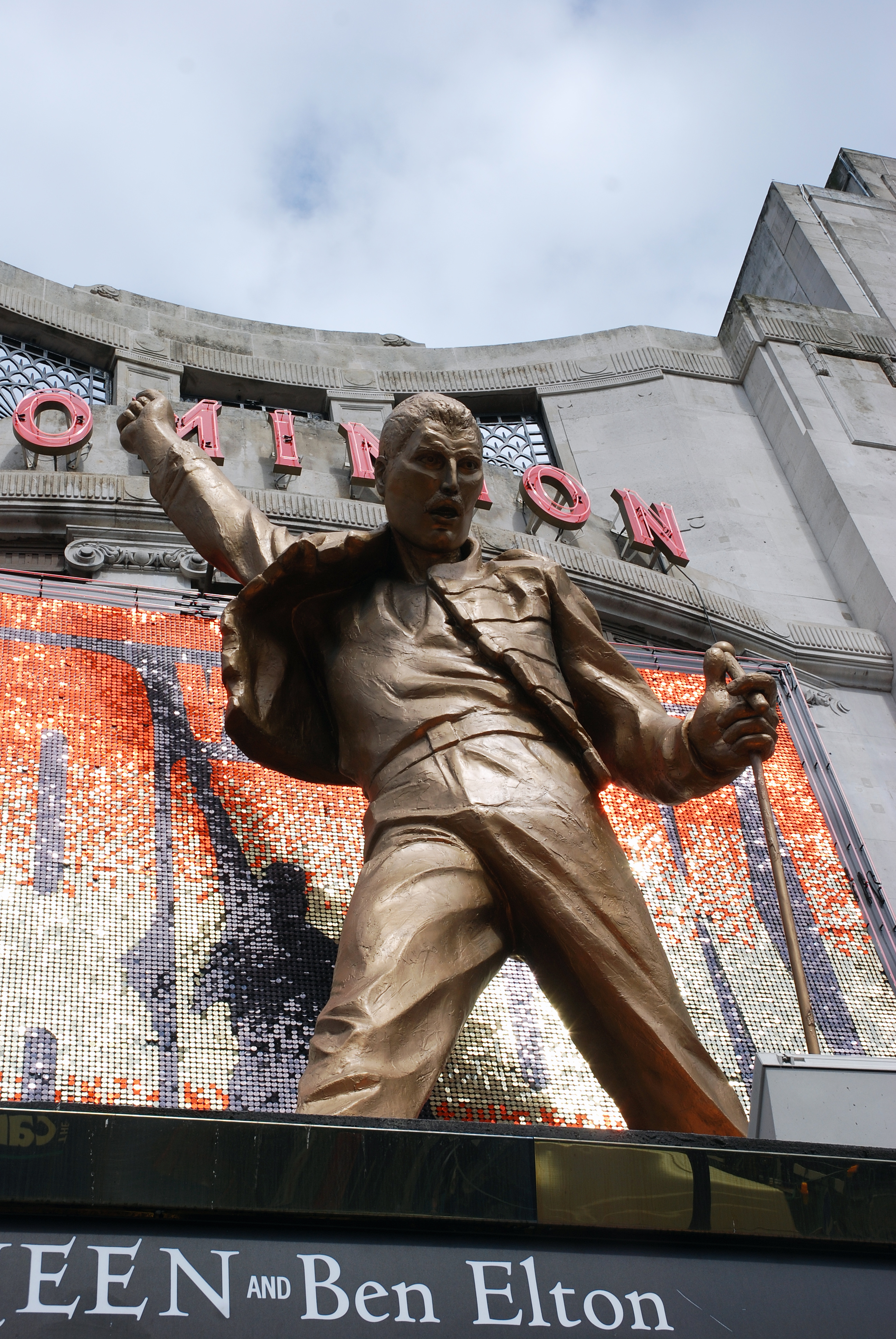 Freddie statue,Dominion Theatre,London,May 2008